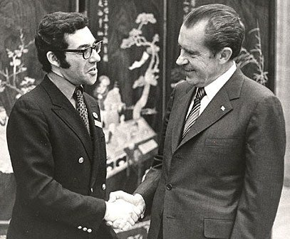 Les Crystal with President Nixon